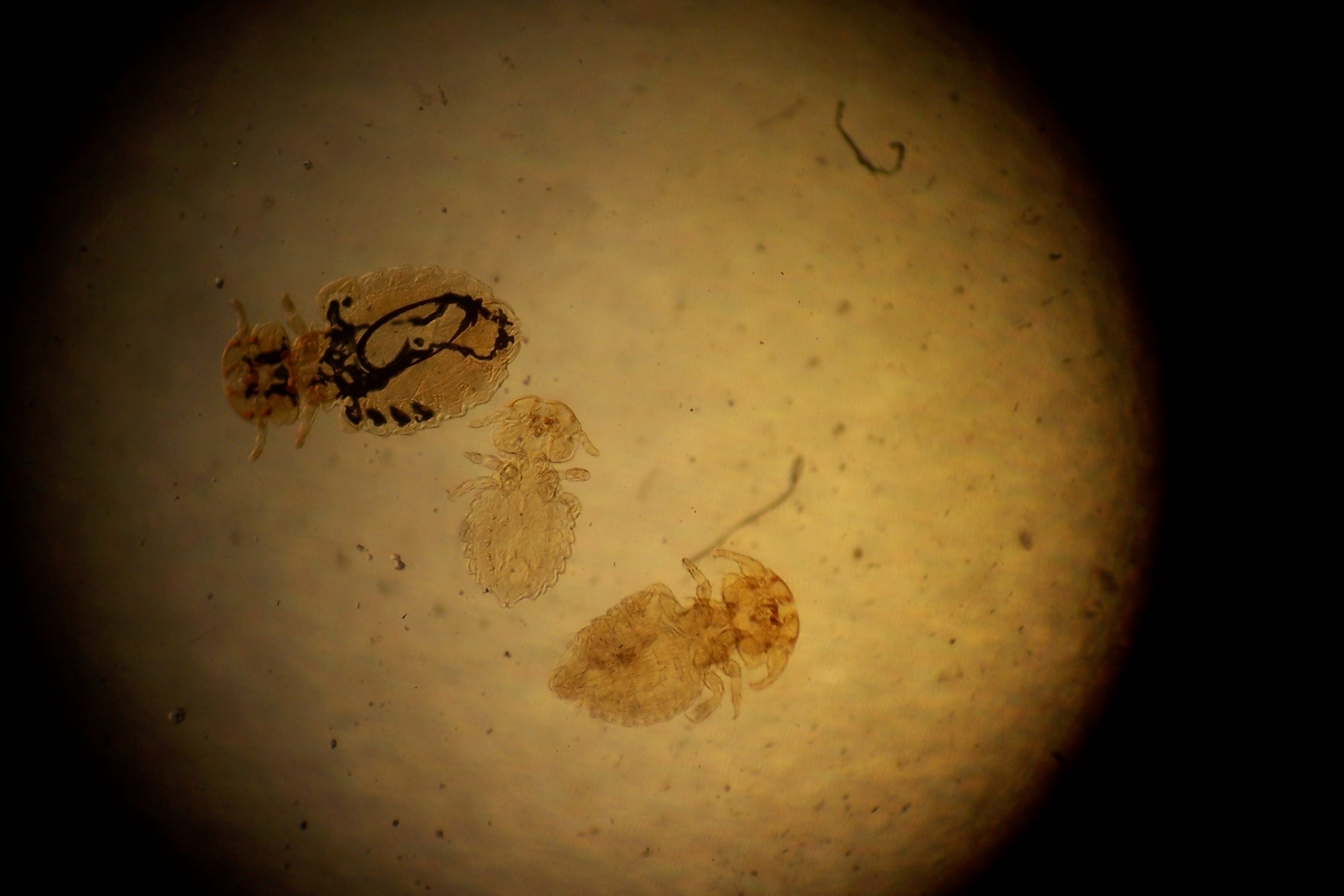 The dog louse, Trichodectes canis, from slides at the University of Edinburgh.